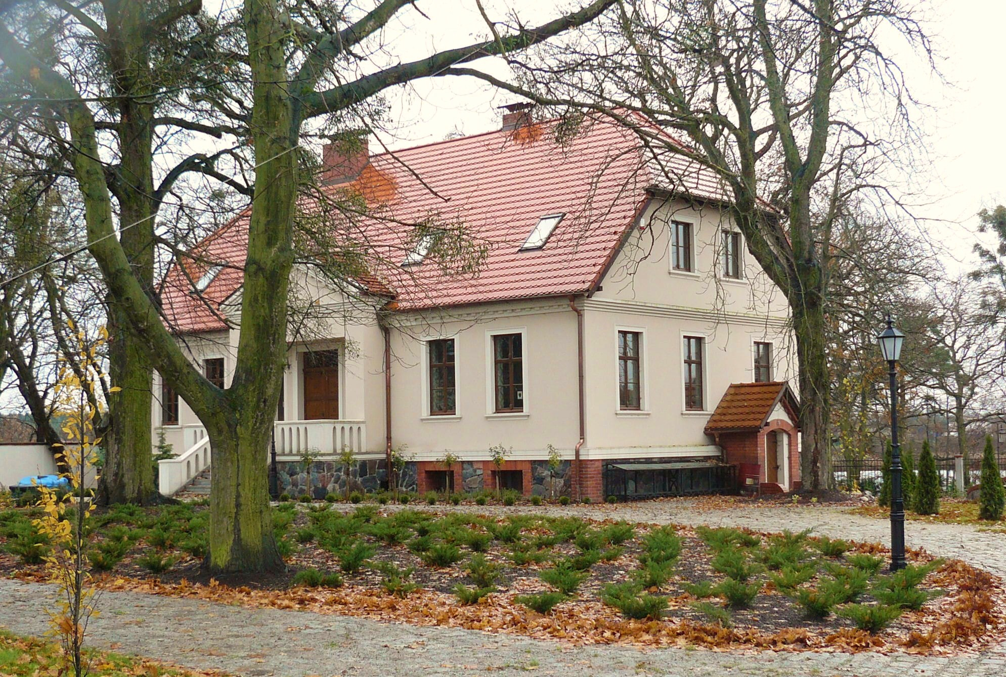 Umultowo - Manor House, Poznan.